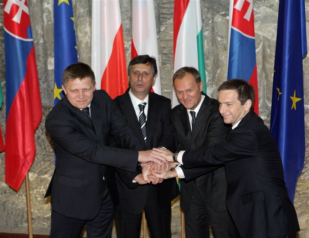 The leaders of V4 in Krakow